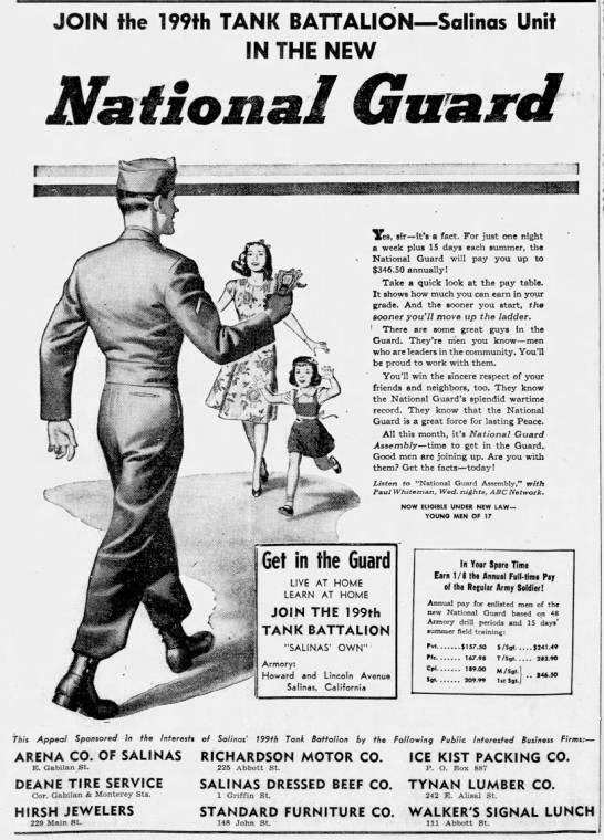 A newspaper recruiting advertisement for the 199th Tank Battalion, California Army National Guard